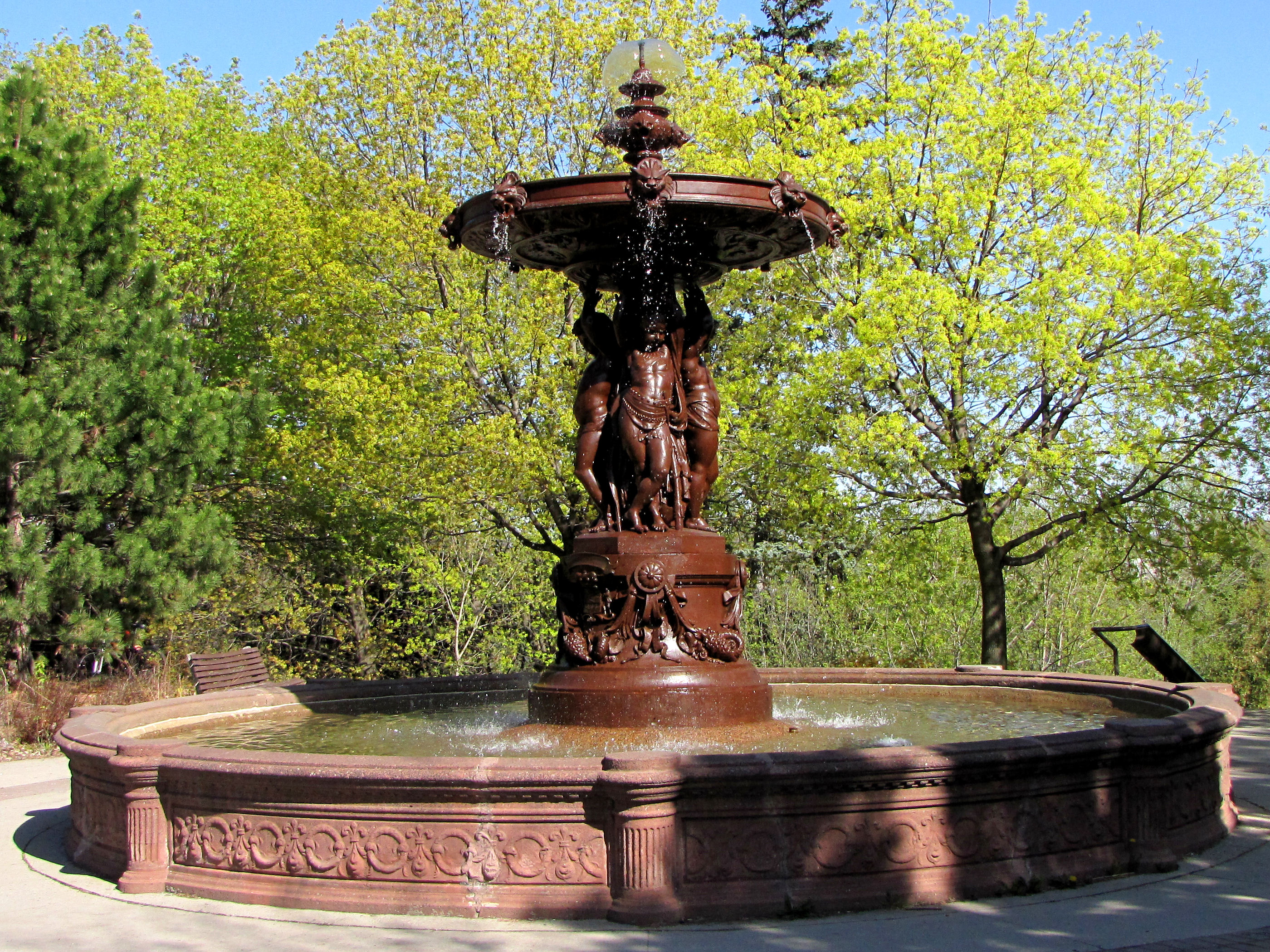 Lord Strathcona Fountain, sculpted by Mathurin Moreau in 1909, Strathcona Park, Ottawa, Ontario, Canada